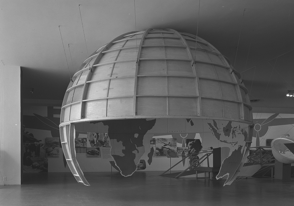 Museum of modern art airways to peace exhibition 1943